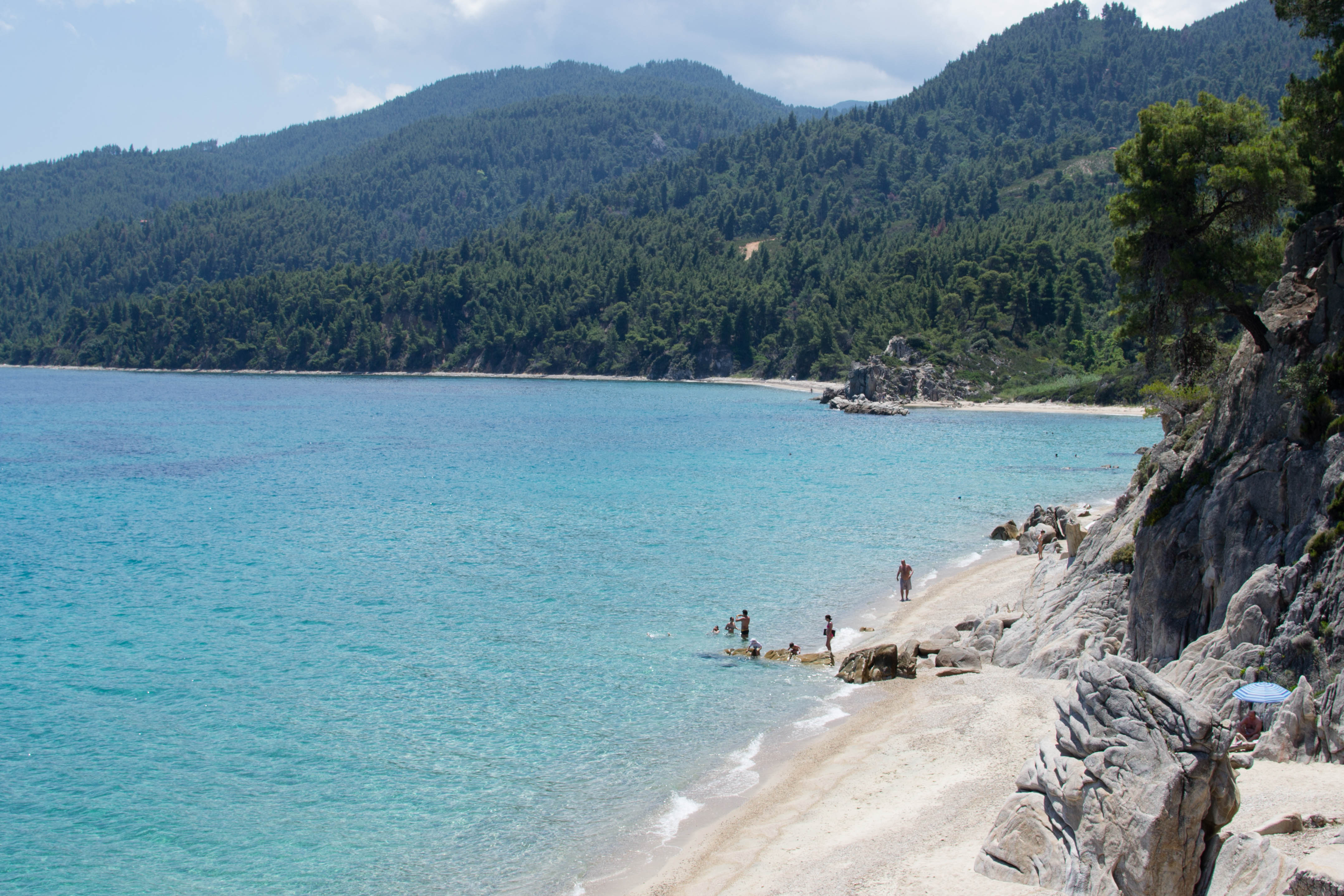 Beach in greece